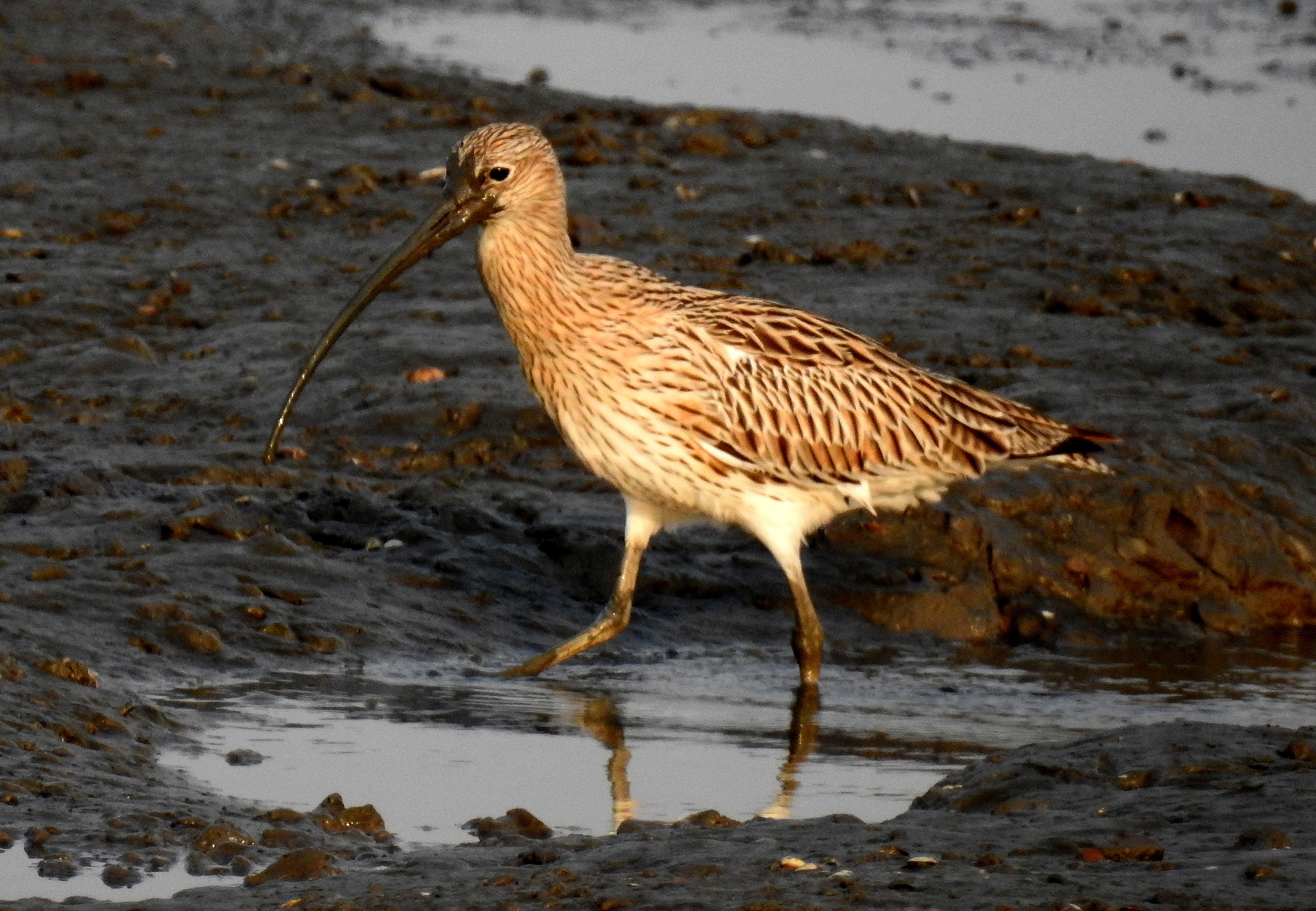 Eurasian Curlew Numenius arquata. Photo taken by Dr. Raju Kasambe at Sewri Jetty, Mumbai. Mahul Sewri Mudflats in an Important Bird and Biodiversity Area (IBA).